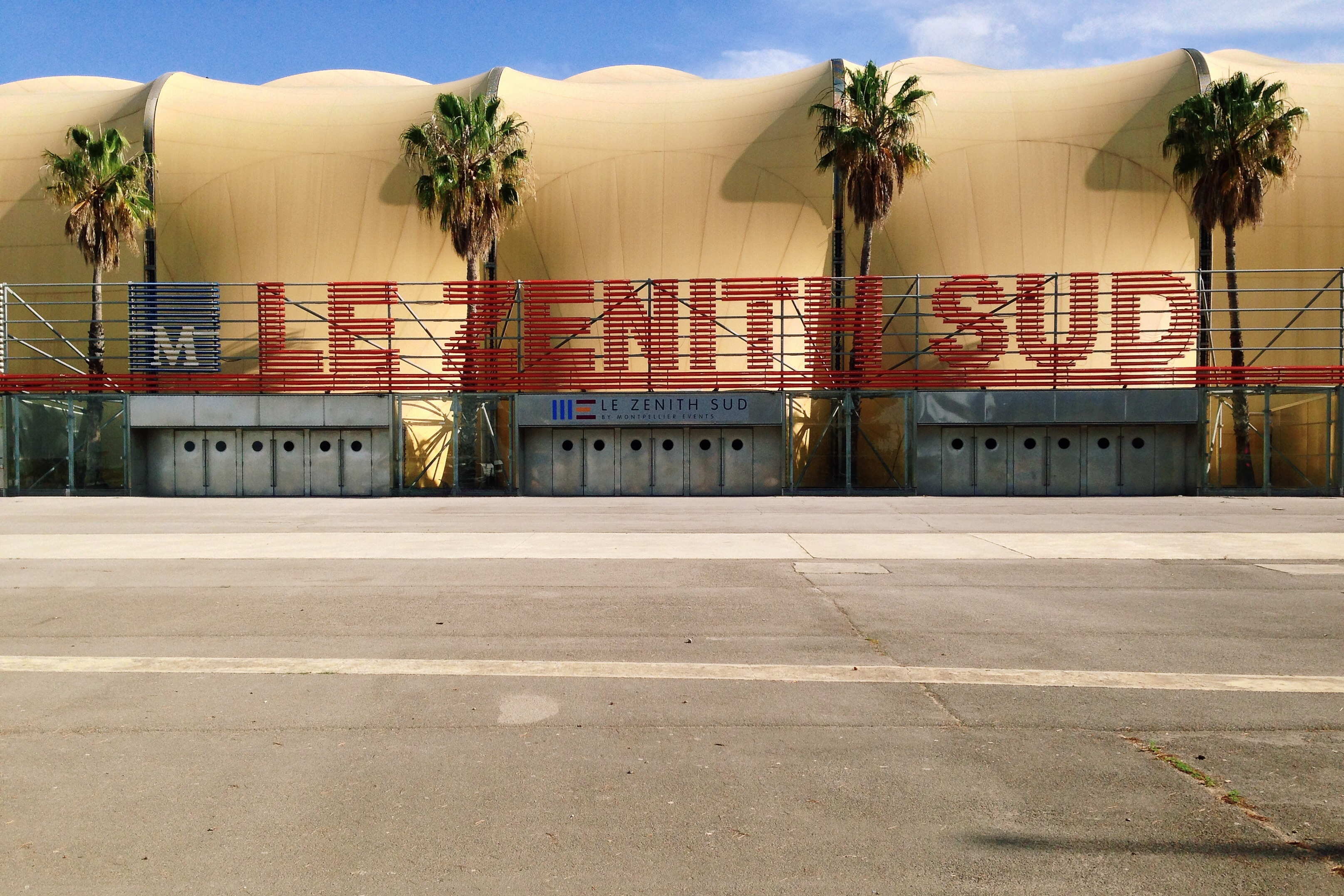 Processed with VSCOcam with k1 preset